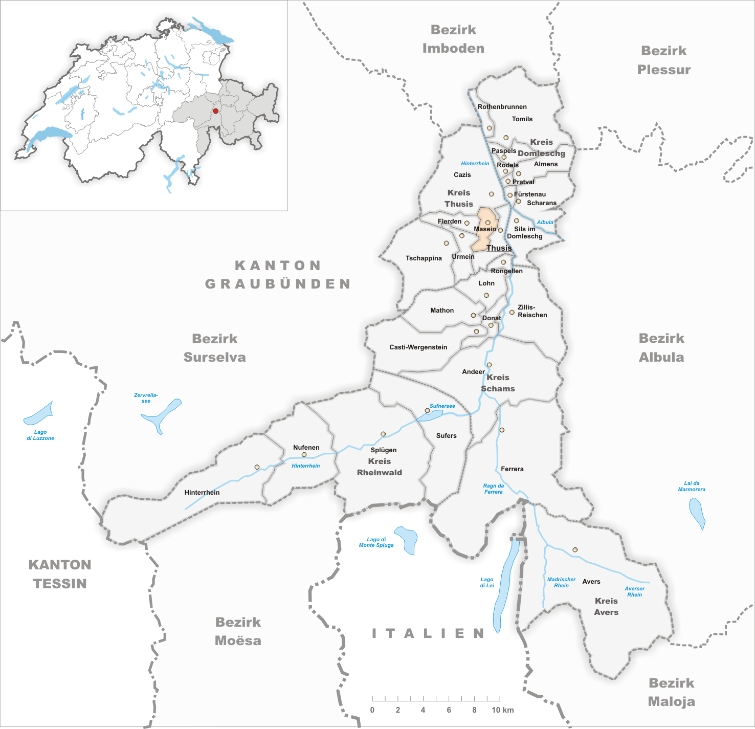 Municipality Masein